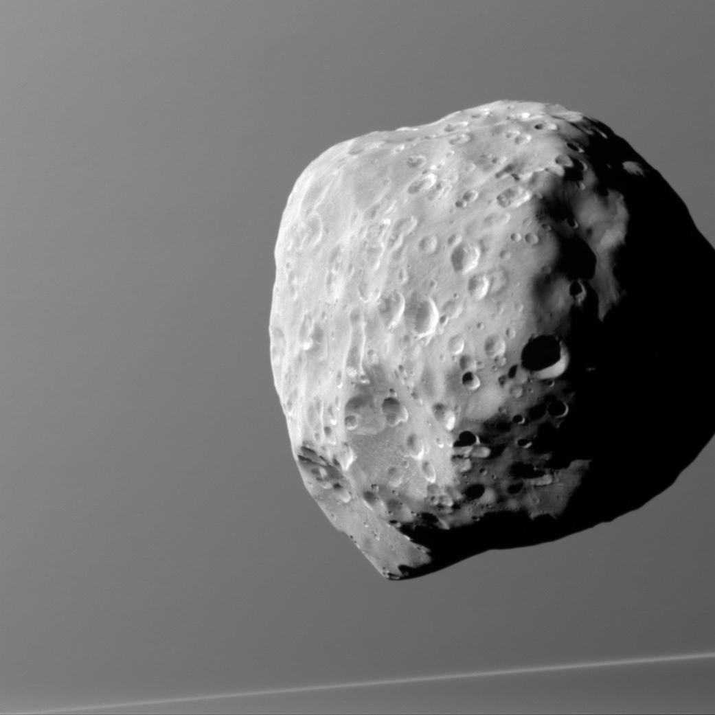 Epimetheus The view was obtained at a distance of approximately 2690 kilometers from Saturn Moon. Image scale on Epimetheus is 160 meters per pixel.